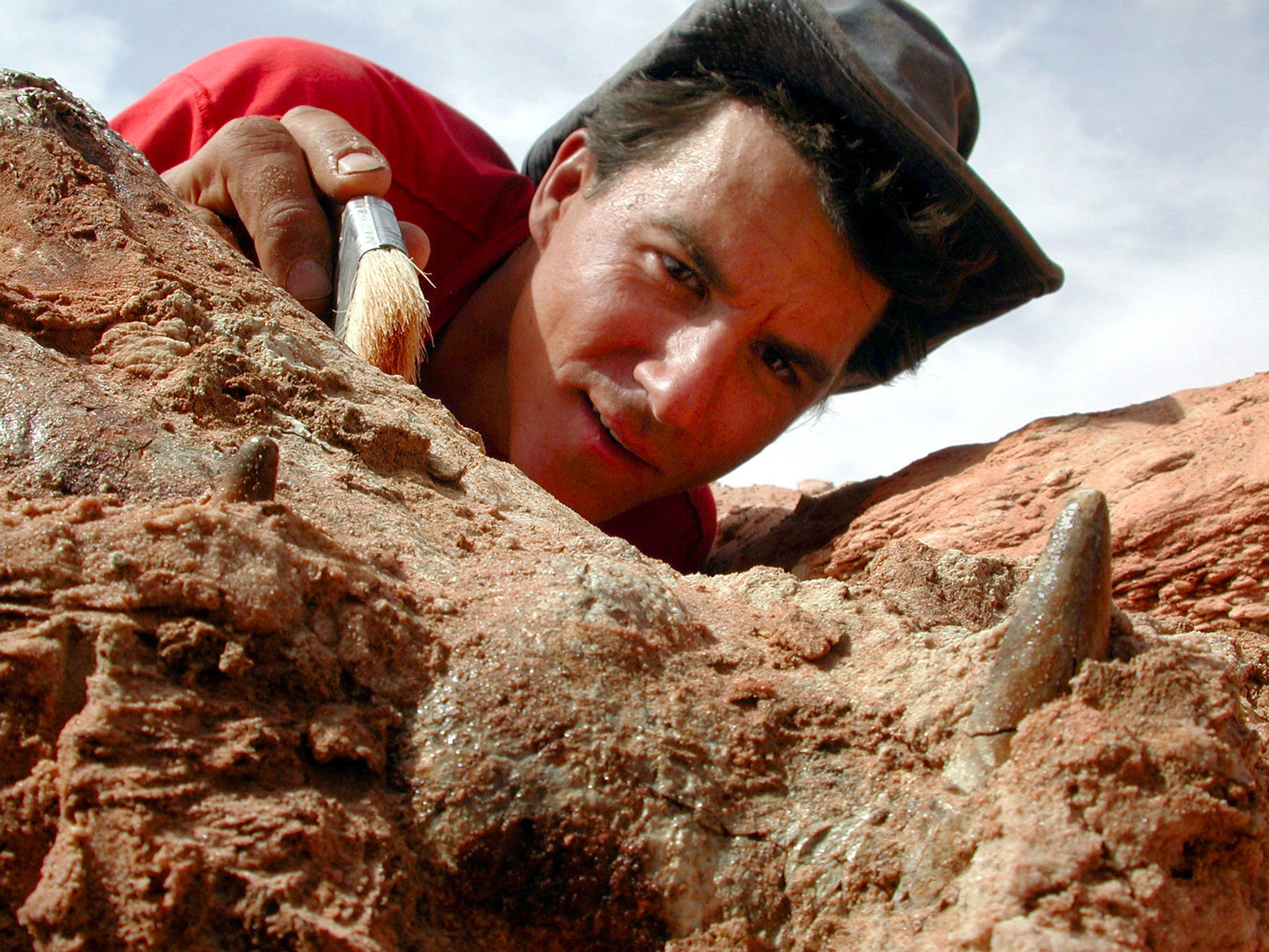 Paleontologist Paul Sereno is the first speaker in OSU's 2010-11 Horning Lecture Series. Sept. 2010. Photo by Mike Hettwer, courtesy of Project Exploration.